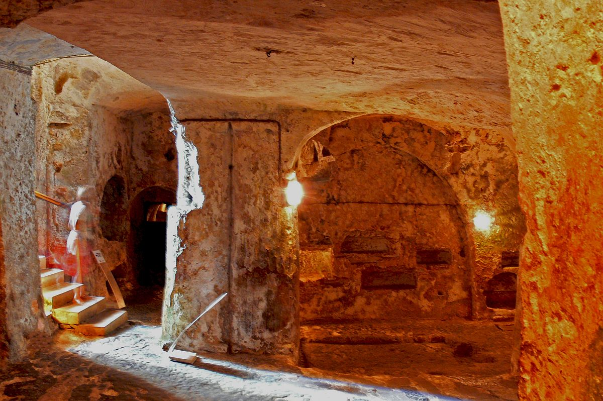 St. Paul's Catacombs in Rabat, Malta